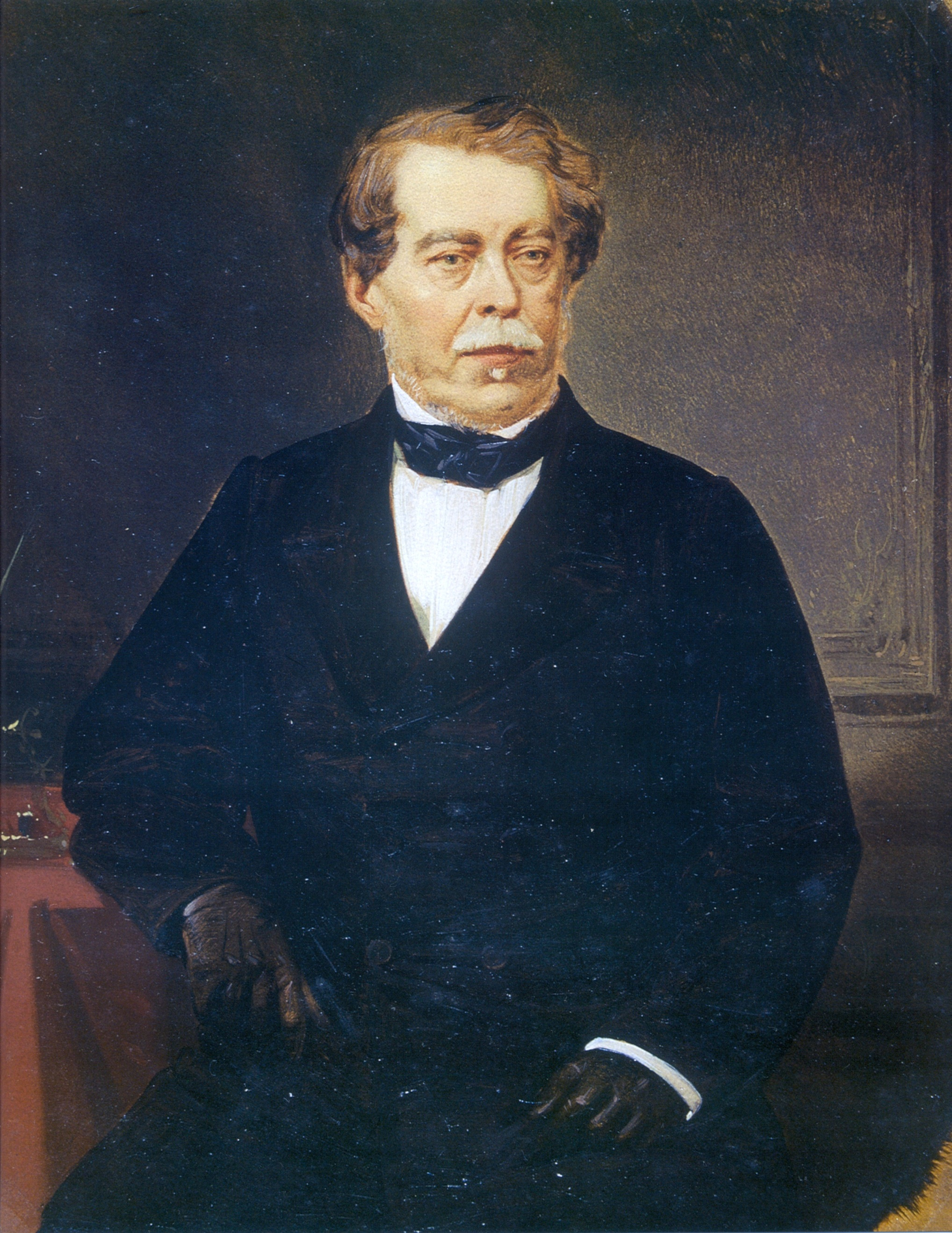 Luís Alves de Lima e Silva, then-Marquis of Caxias, c.1861.